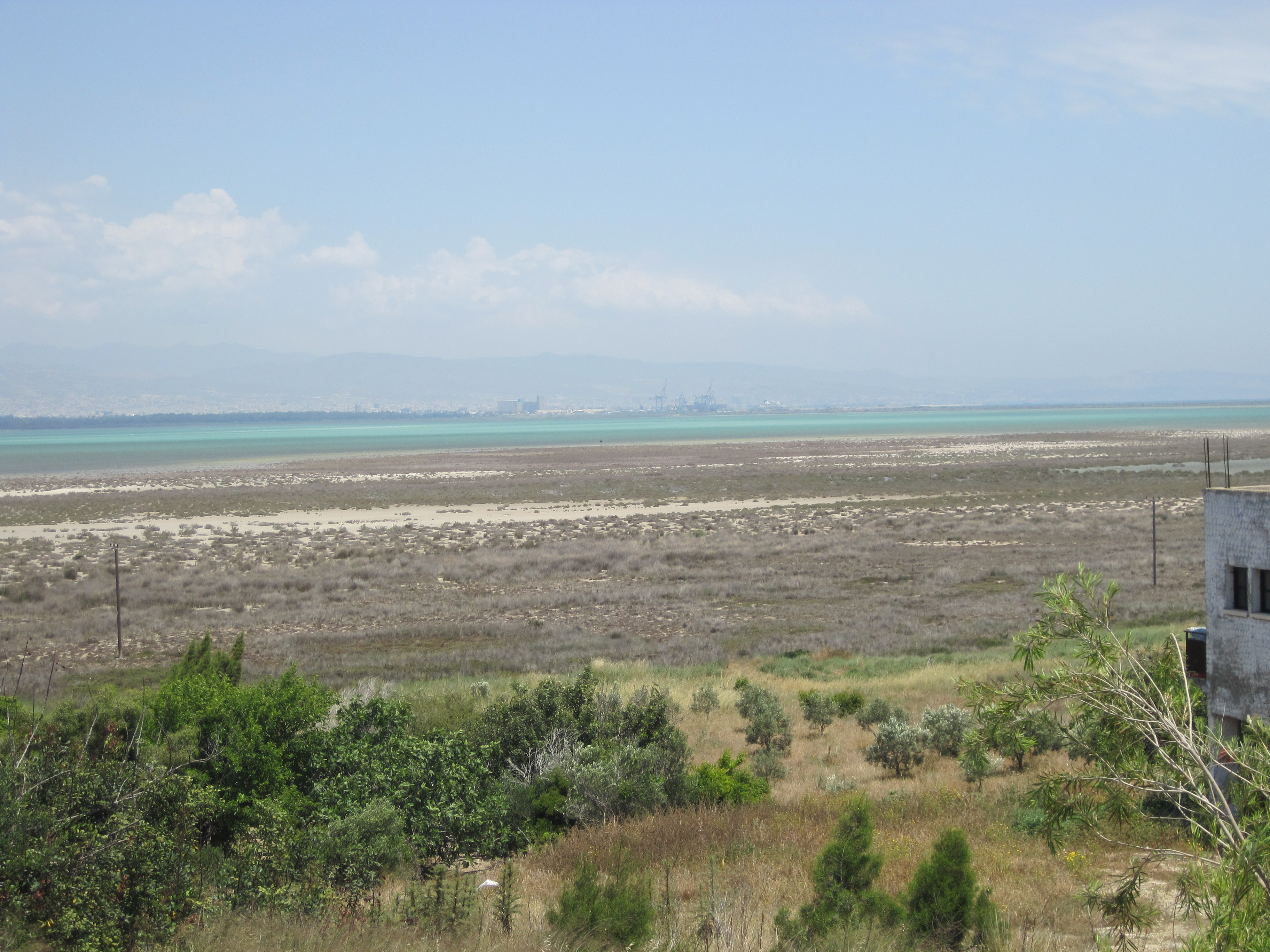 Views across to the salt lake at Akrotiri